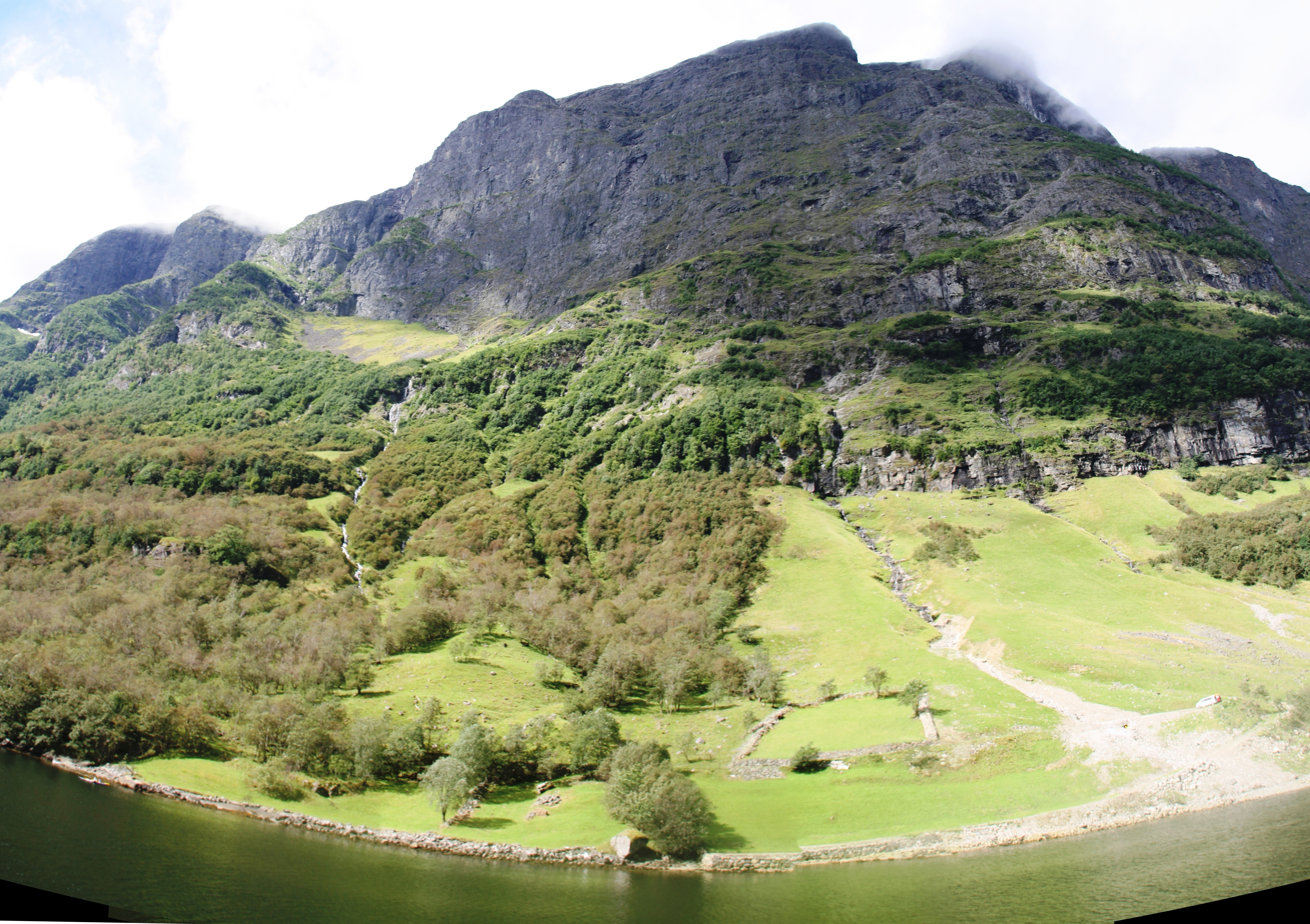 The Bakka culture landscape at the Nærøyfjord under the Bakkanosi mountain, Aurland municipality (Norway). These fjordsides of Nærøyfjorden are a UNESCO World Heritage Site since 2005 ("Vestnorsk Fjordlandskap - Nærøyfjorden").